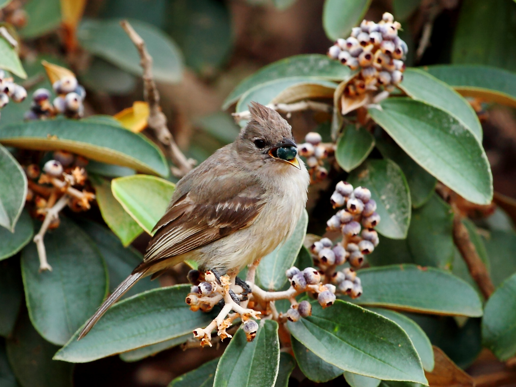 Plain-crested elaenia; Serra da Canastra National Park, Minas Gerais, Brazil